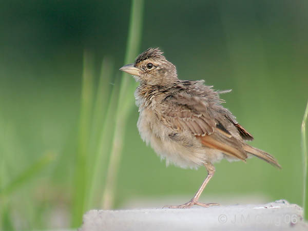 Bengal bushlark Mirafra assamica in Kolkata, West Bengal, India.